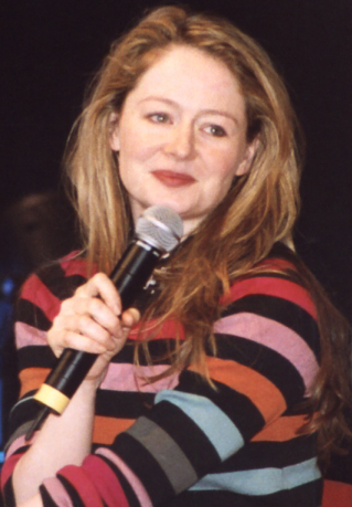 Australian actress Miranda Otto at the Lord of the Rings-Convention Ring*Con 2006 in Fulda, Germany.